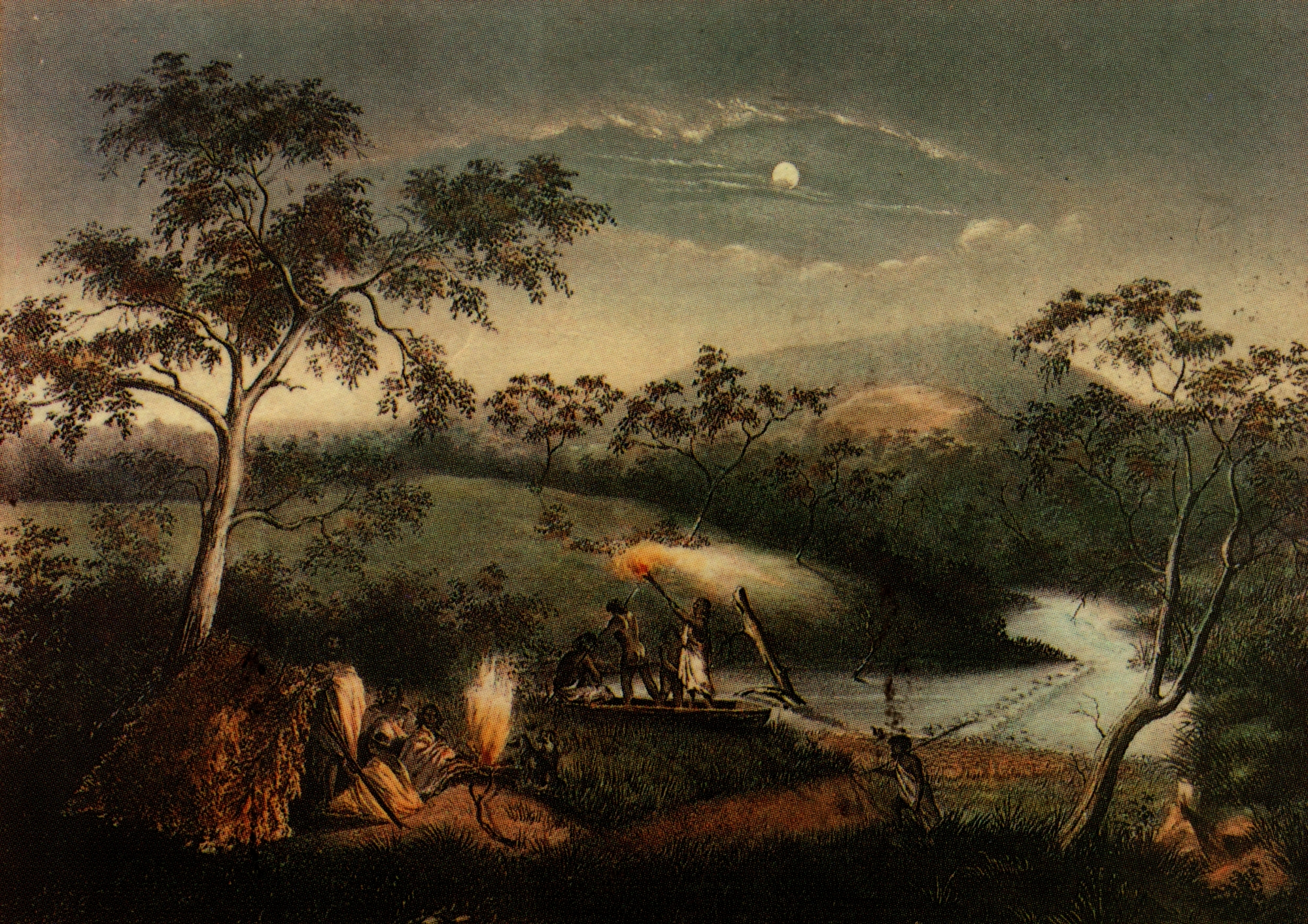 Aboriginal people fishing and camping on Merri Creek. Tinted lithograph by Charles Troedel, 1864 from Souvenir Views of Melbourne and Victorian Scenery, Melbourne, 1865. Held in the La Trobe Collection, State Library of Victoria. Now in Public Domain. This copy scanned from 'Jack of Cape Grim' by Jan Roberts (1986)